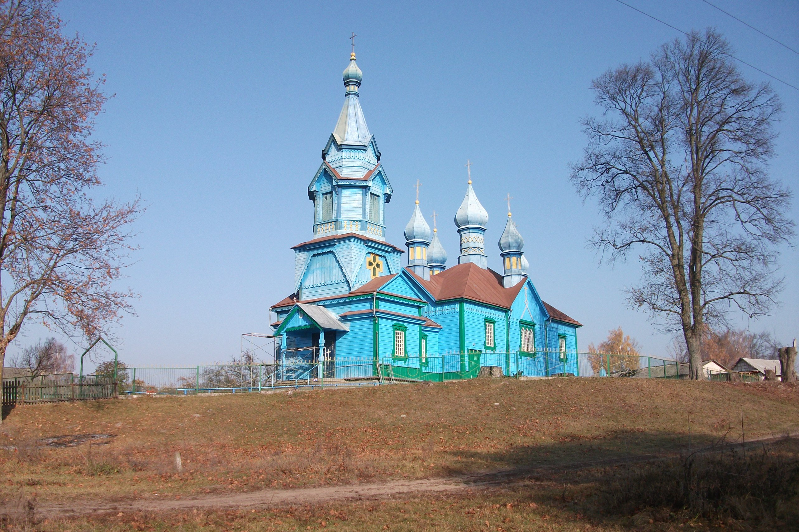 St. Paraskevi's Church, Mikalaeva village, Belarus